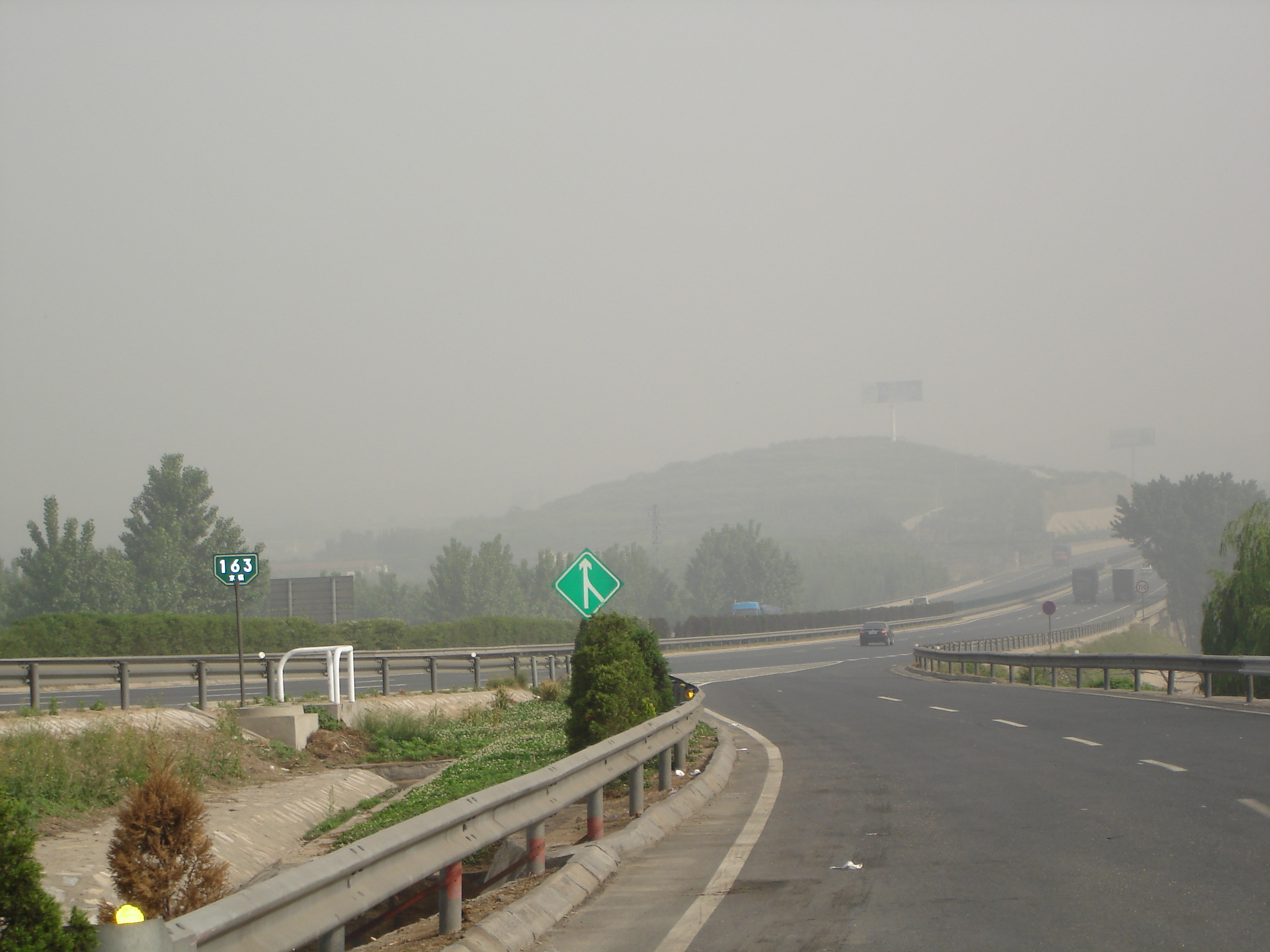 China: Jinghu Expressway, Tai'an rest area